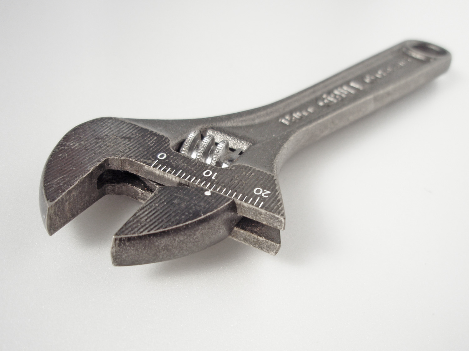 Adjustable spanner